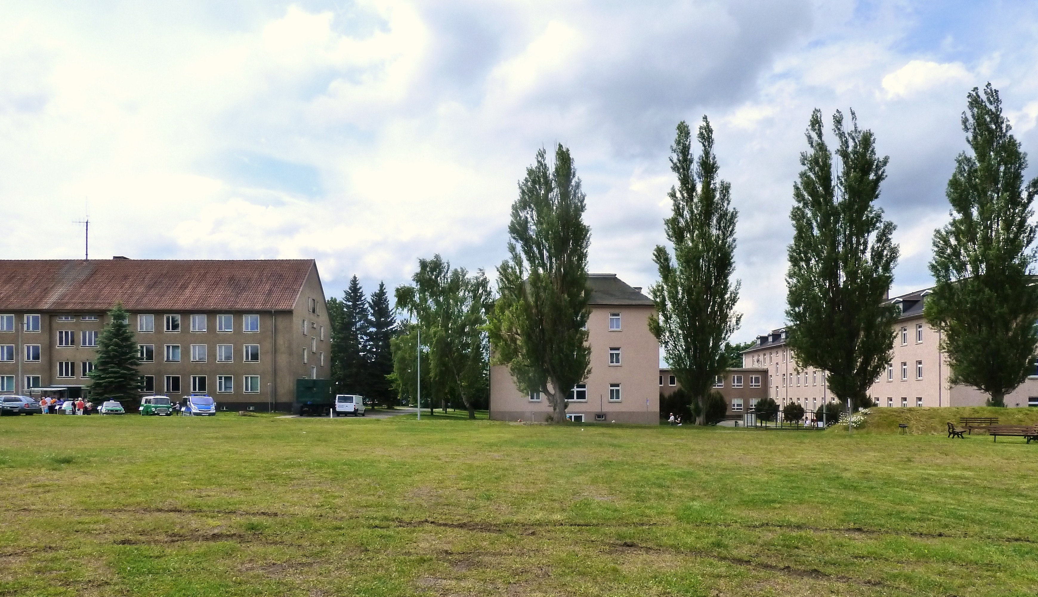 Barrack "Drachenbergkaserne" in Meiningen, Germany